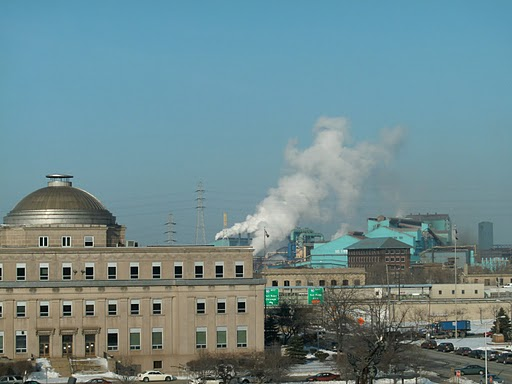 Lake County Superior Courthouse & US Steel Gary Works in the background